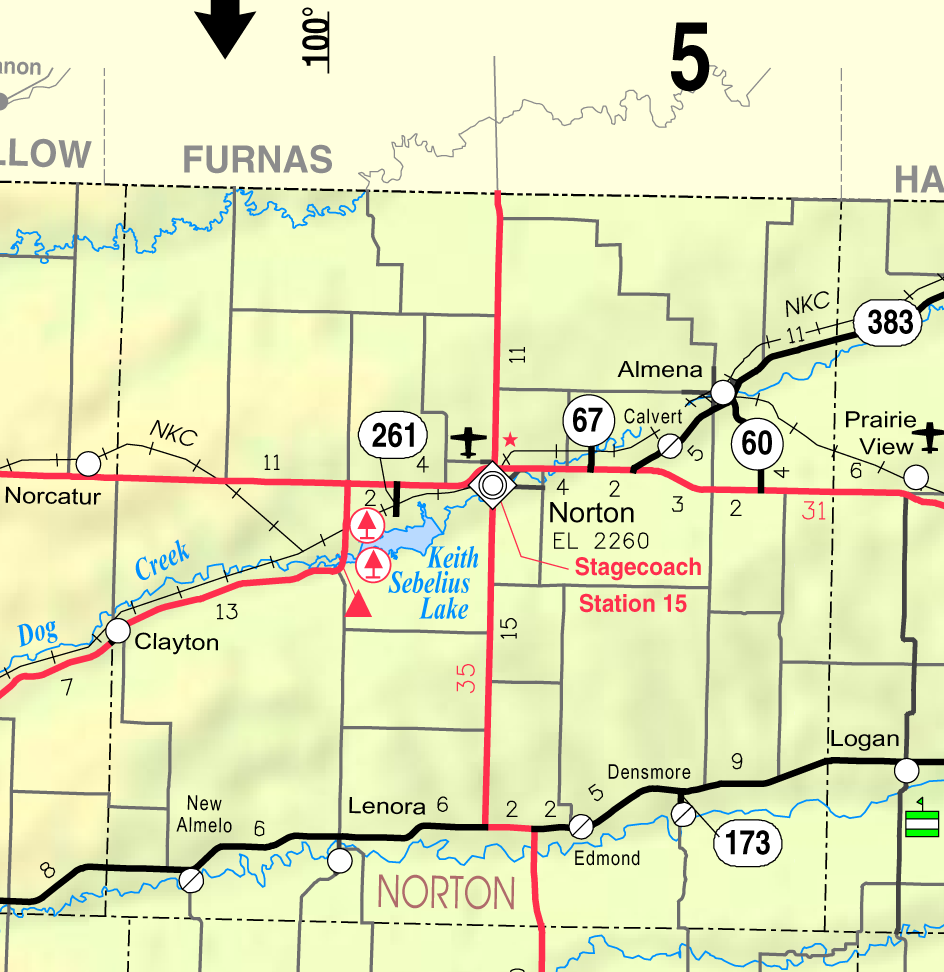 This map of Norton County, Kansas, USA, is copied at a resolution of 300 pixels/inch from the original PDF file.